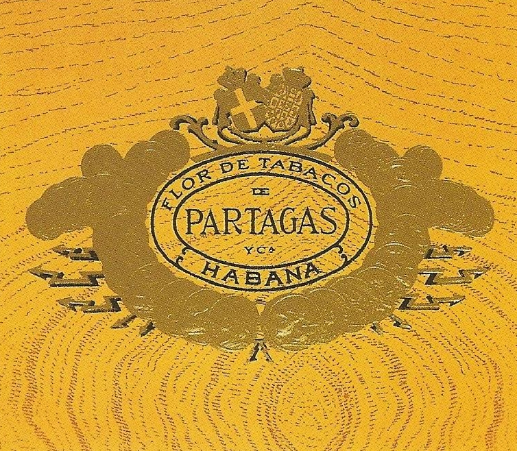 Partagás Cigar Brand Logo